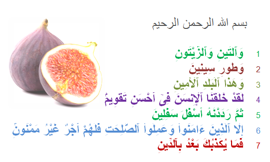 The 95th surah of holy Quran, surah Tin (fig fruit).